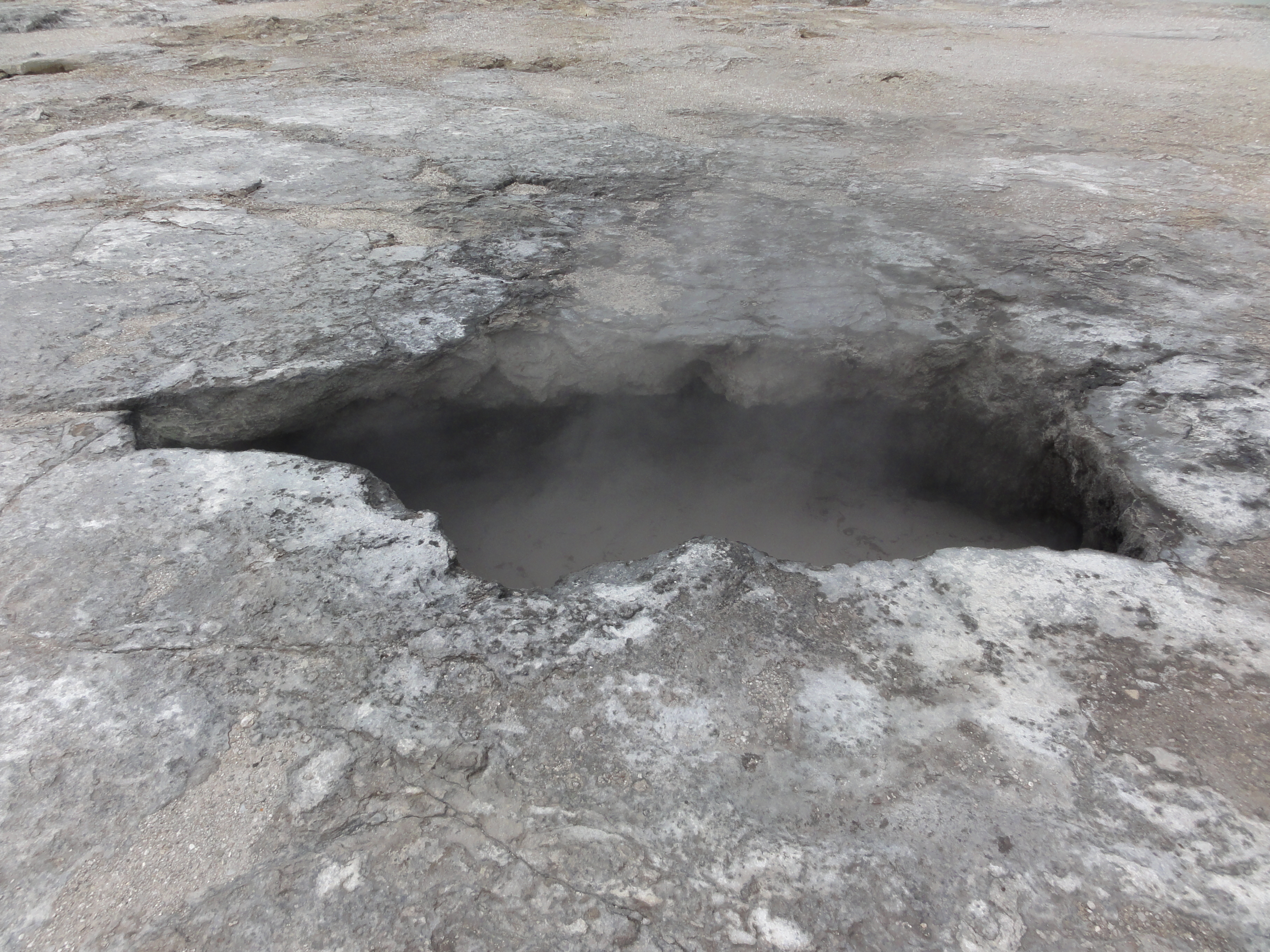 Mudpot, Suphur bay; Rotorua, BOP, New Zealand